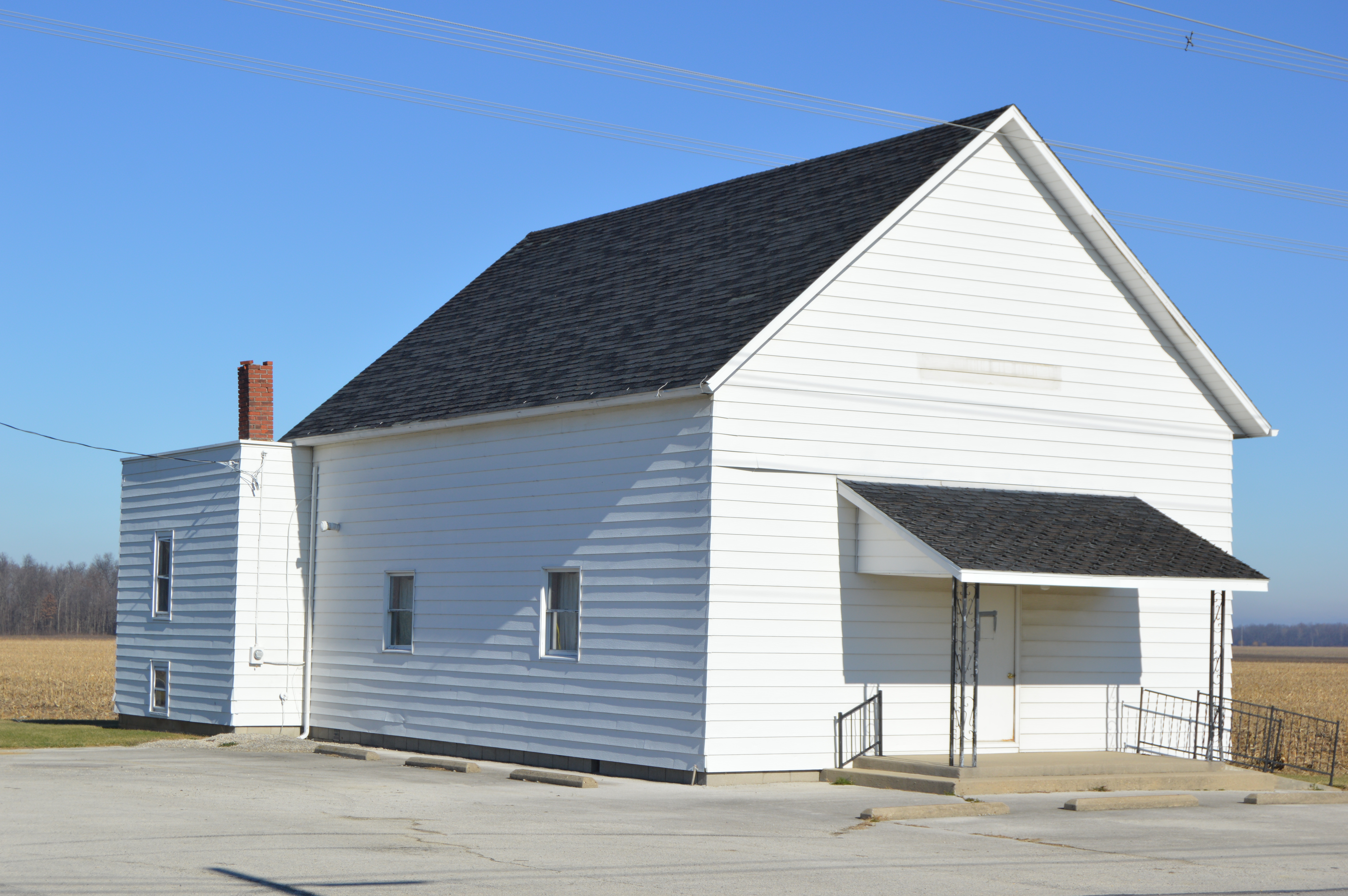 Front and western side of the Hopewell Township hall, located on the northwestern corner of the intersection of Oregon and Hellwarth Roads northwest of Celina in Mercer County, Ohio, United States.